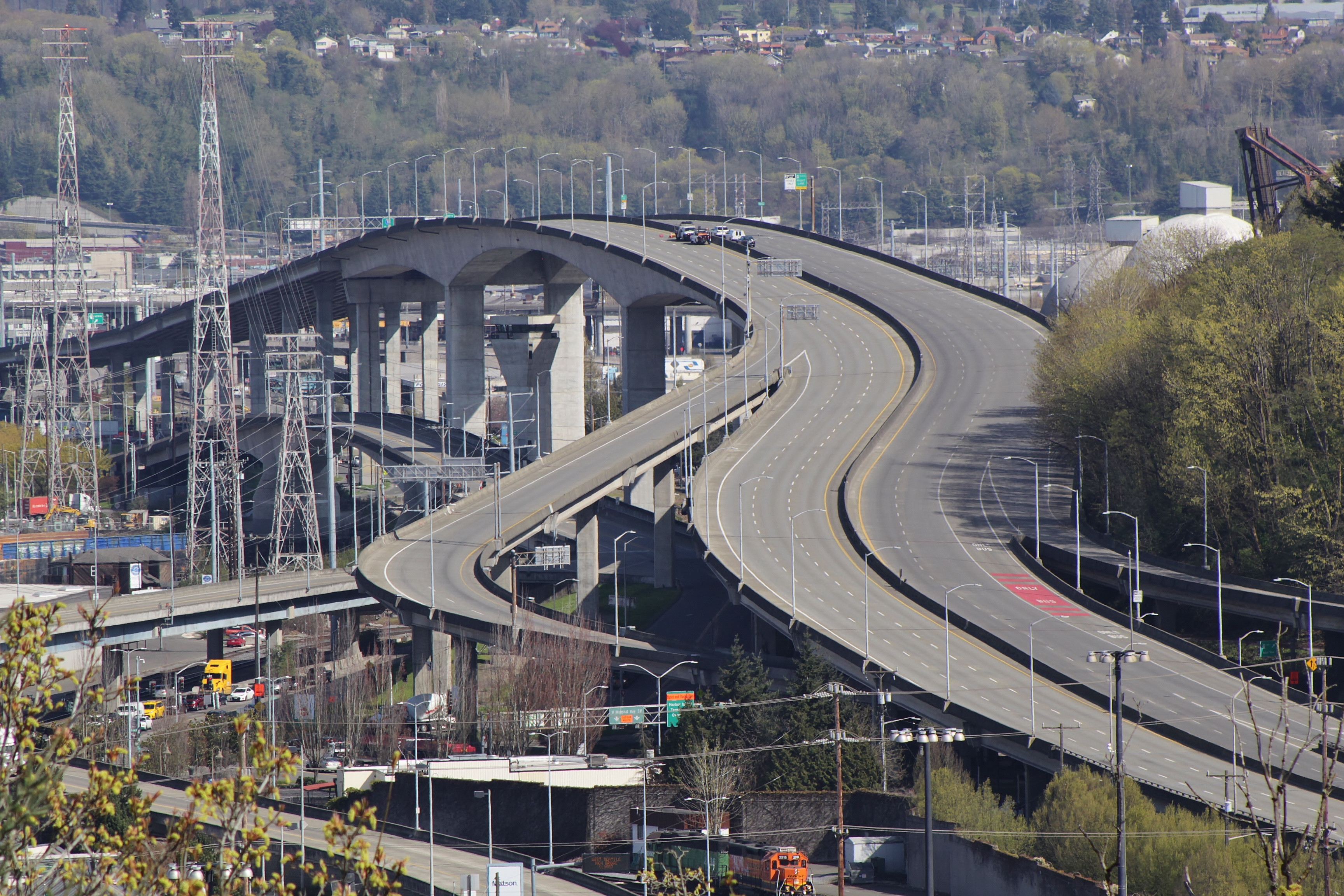 The closed West Seattle Bridge undergoing repairs, as seen from 33rd Avenue Southwest.